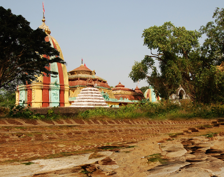 Subarnameru Temple is a famous temple in the Sonepur town, the district and Town's name Subarnapur belived to be christened from the name "Subarnameru".